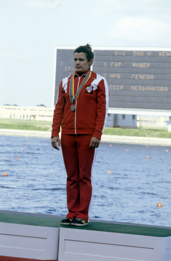 “Soviet athlete Antonina Melnikova wins bronze in single kayaking at the 1980 Olympic Games”. The 22nd Summer Olympic Games. Rowing canal in Krylatsky. Soviet athlete Antonina Melnikova wins bronze in single kayaking.